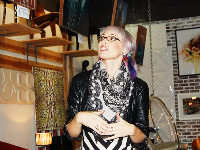 Danielle Eckhardt speaking on her featured works at ENCORE exhibition